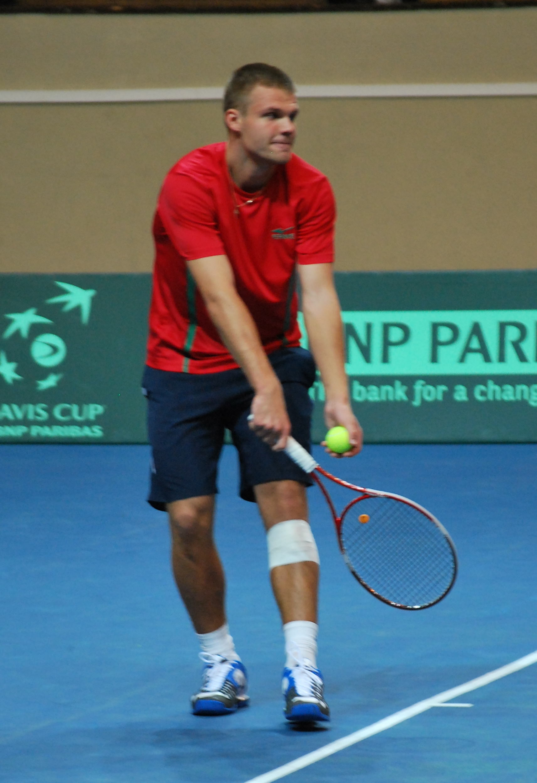 Dzmitry Zhyrmont, tennis player from Belarus, Davis Cup Łódź 2012